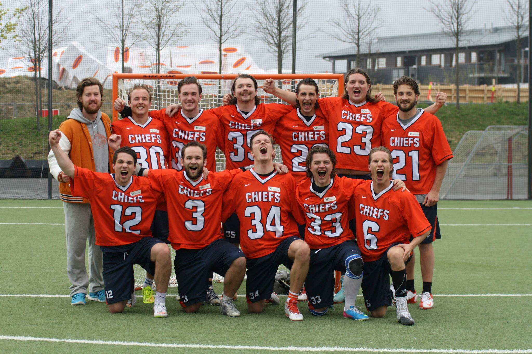 Lagbilde NM 2015